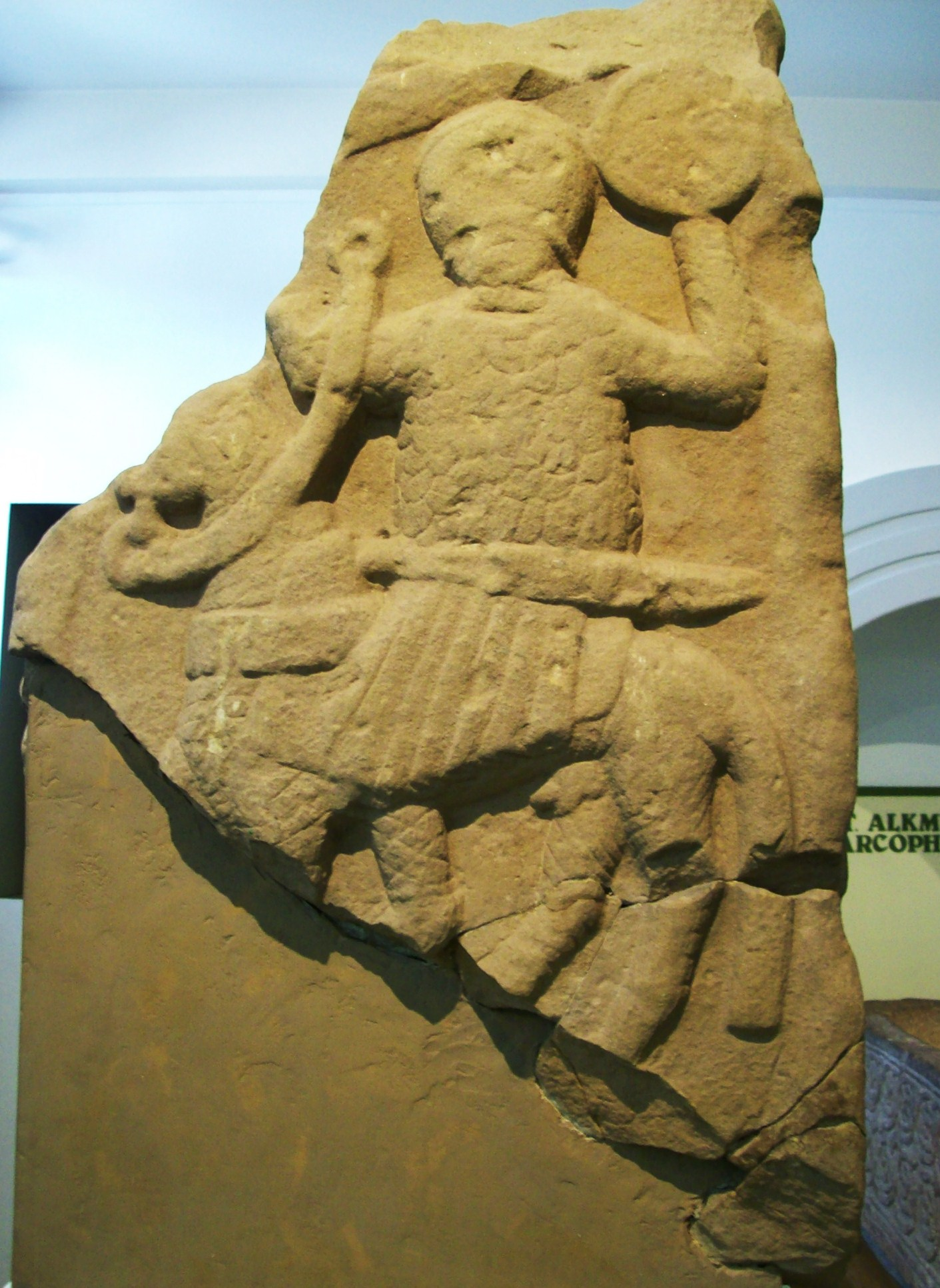 The Repton Stone, detail of mounted warrior.